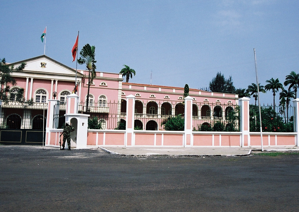 The presidential palace. The equatorial island Sao Tomé. Photograph by Henryk Kotowski